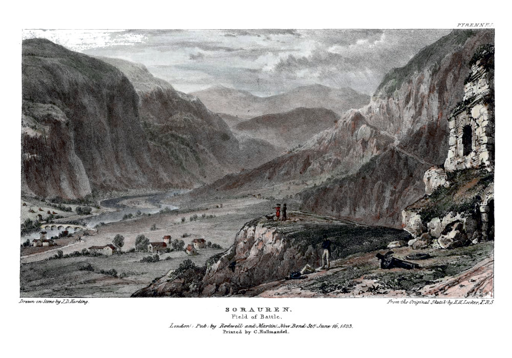 Sorauren. Field of battle (after the Napoleon's French invasion) (work "Views in Spain")